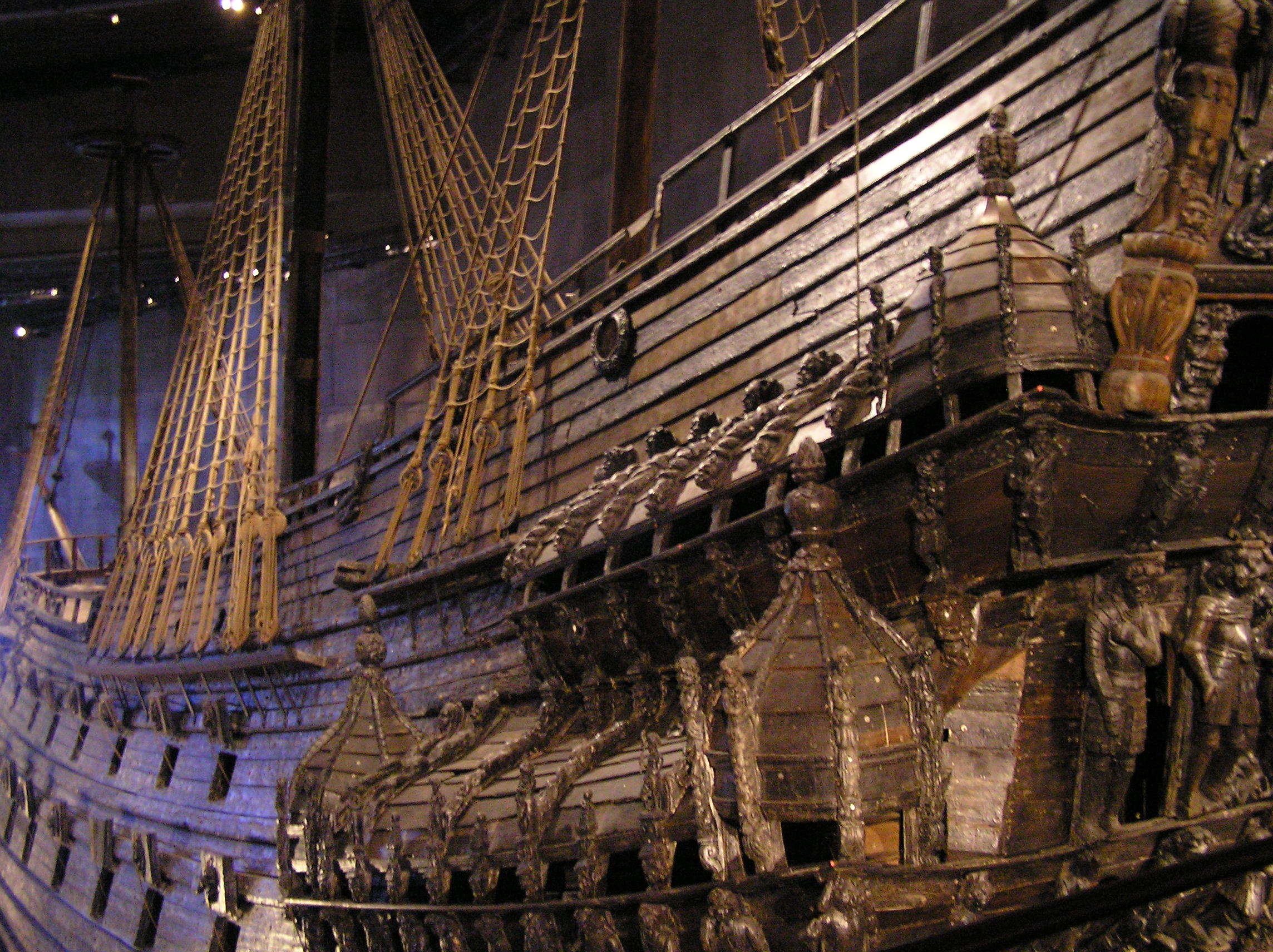 Photograph of Vasa ship.